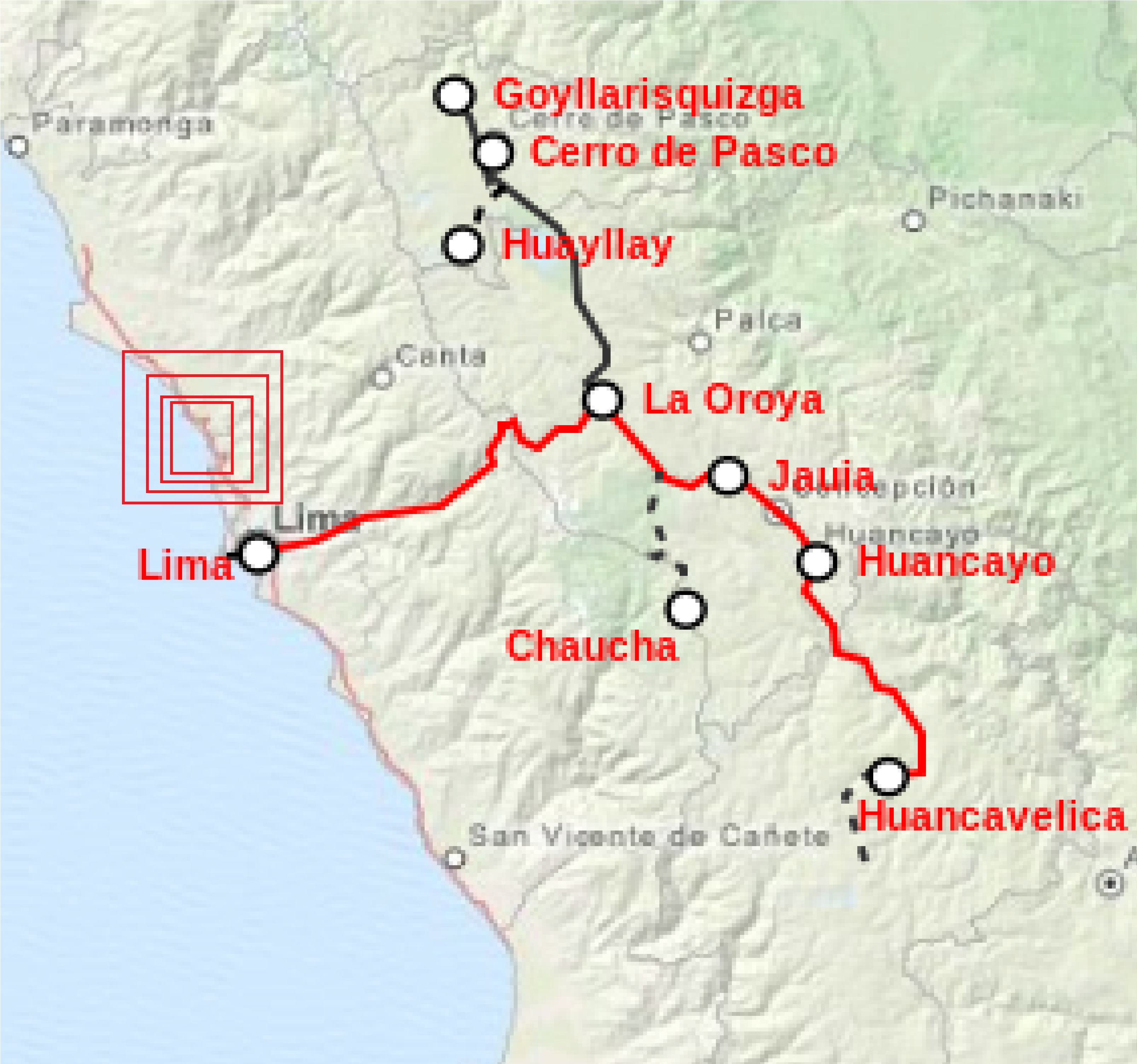 Location of Pasamayo on the Pan-American Highway of Lima